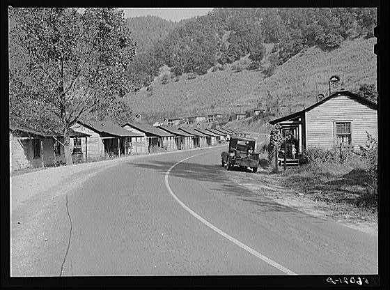 Company homes in the mining town of Virgie, Kentucky.